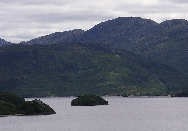 Brinacory Island, Loch Morar. Brinacory Island lies close to the deepest part of Loch Morar, and several sightings of 'Morag', the Loch Morar monster, have occurred near it.